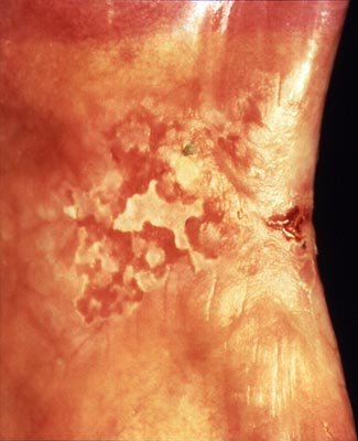 These images are part of the 2013 publication from the NIH "Detecting Oral Cancer: A Guide for Health Care Professionals". Available on the 15/7/14 at Erythroleukoplakia in left commissure and buccal mucosa. Biopsy showed mild epithelial dysplasia and presence of candida infection. A 2-3 week course of anti-fungal treatment may turn this type of lesion into a homogenous leukoplakia.